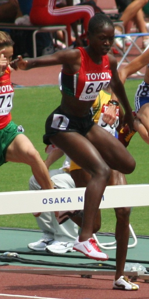 World Athletics Championships 2007 in Osaka - Women's 3000 meter steeplechase 3rd heat. Ruth Bisibori Nyangau (646)